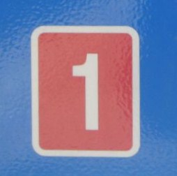 NCN 1 Signpost